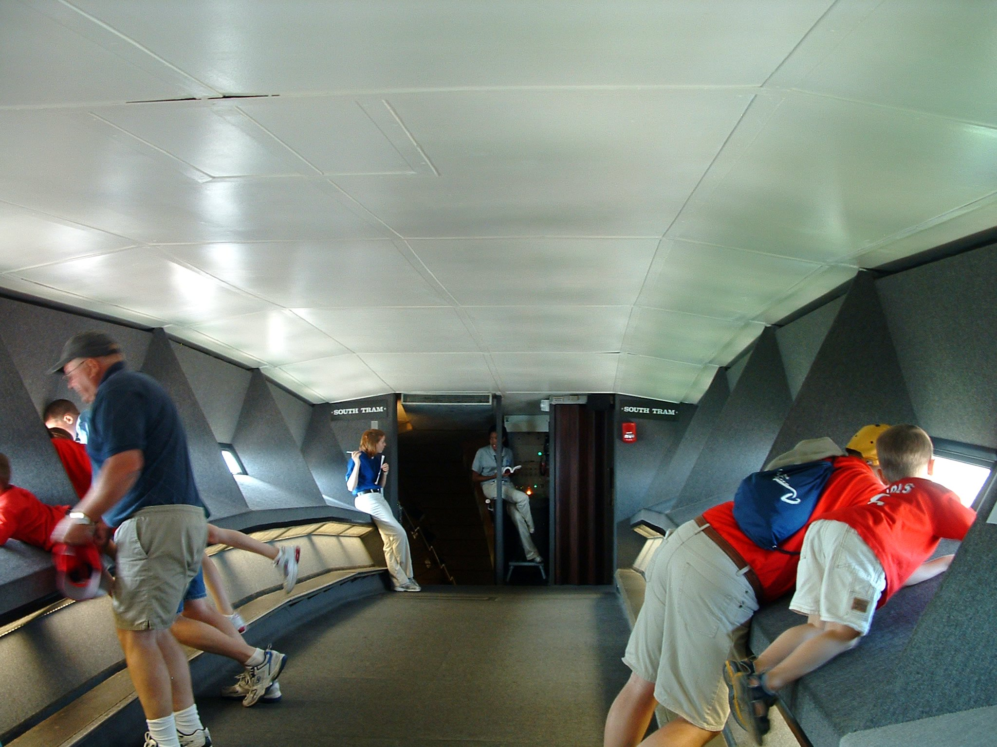 The interior of the top of the St. Louis Arch. Photographed June 15, 2006 in St. Louis, Missouri by Kelly Martin.